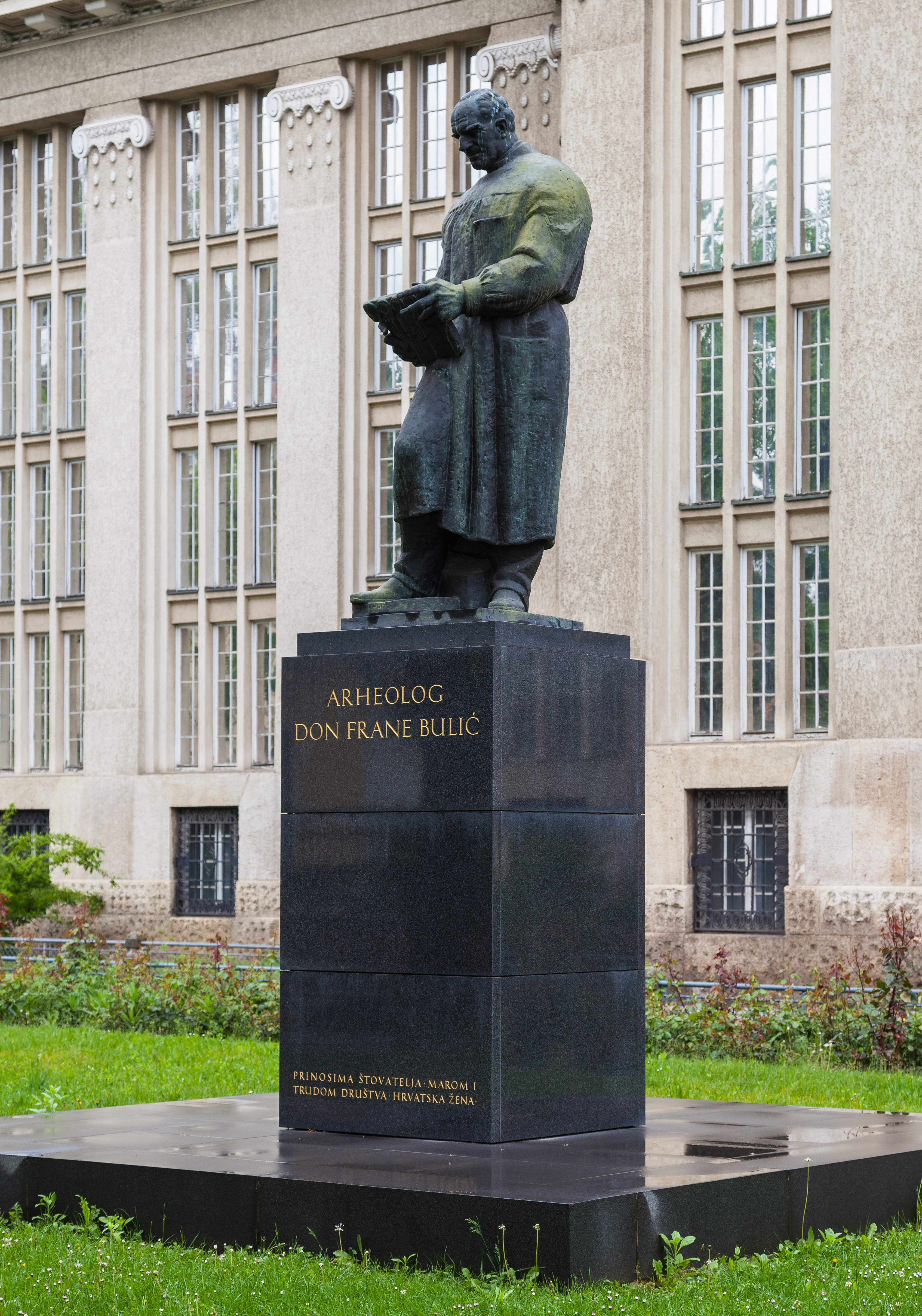 Statue of Frane Bulic in front of the State Archives, Zagreb, Croatia